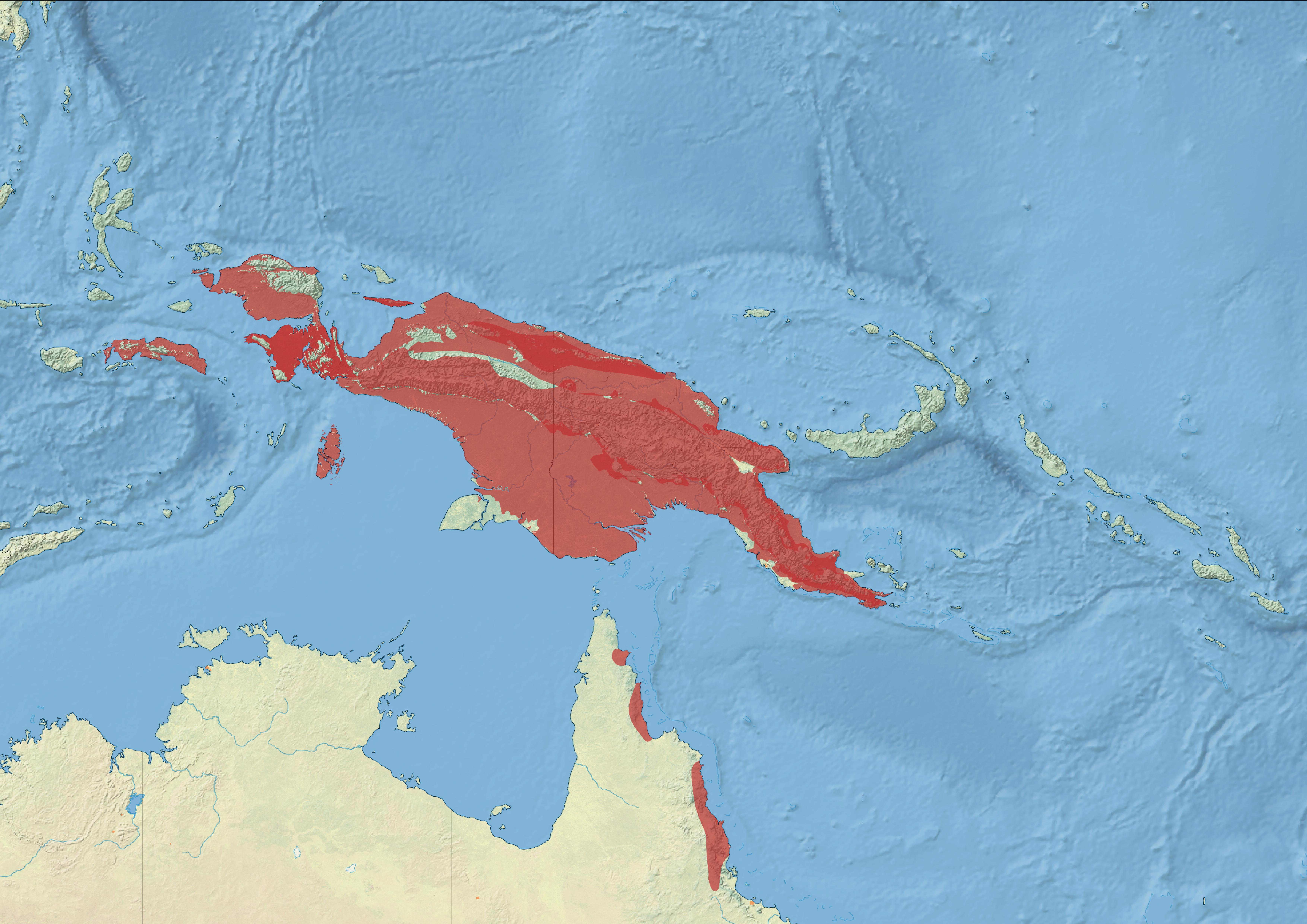 The Density of Cassowary Species